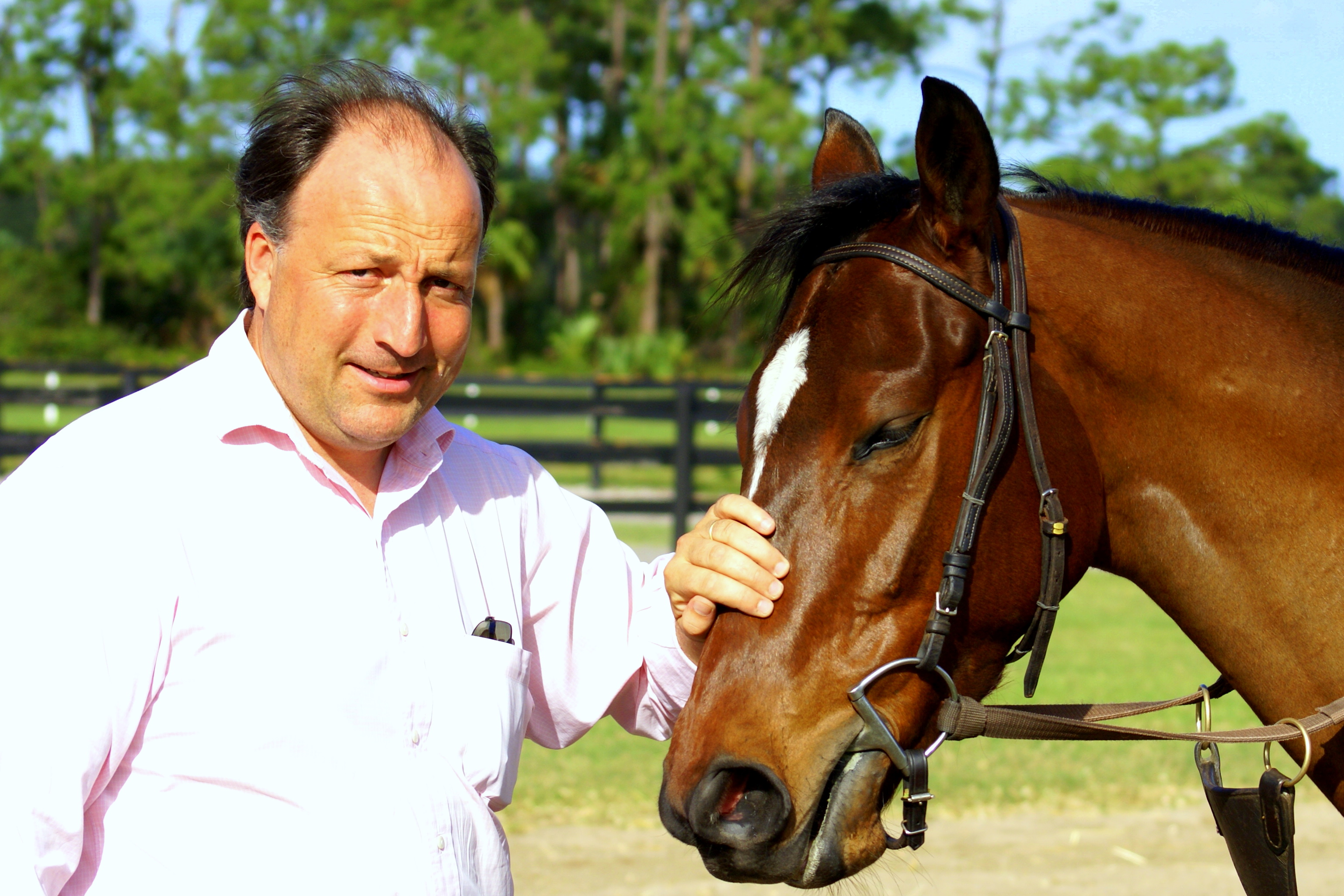 Thoroughbred Horse Racing trainer Christophe Clement, in a Paddock at Payson Park, Indiantown, Florida